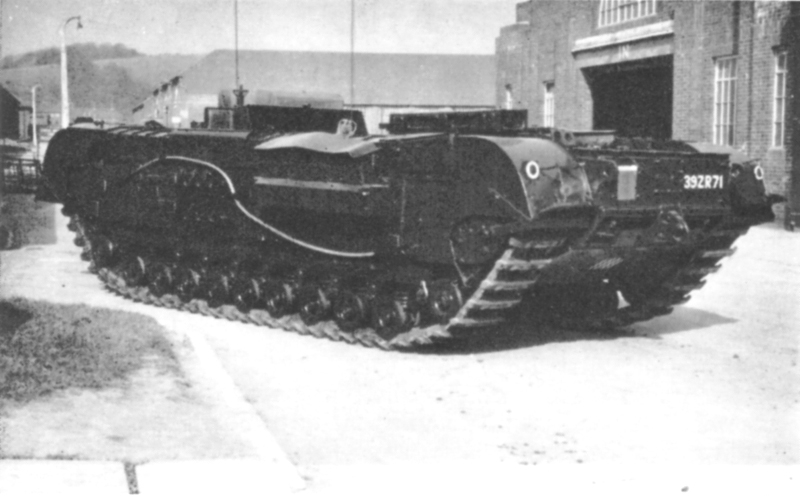 zA Churchill Kangaroo armoured personnel carrier - the front of the vehicle is to the left of the picture.